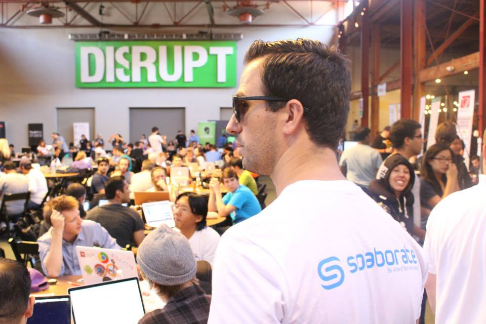 Solaborate CEO at Disrupt TechCrunch SF 2013, where Solaborate launched public beta.